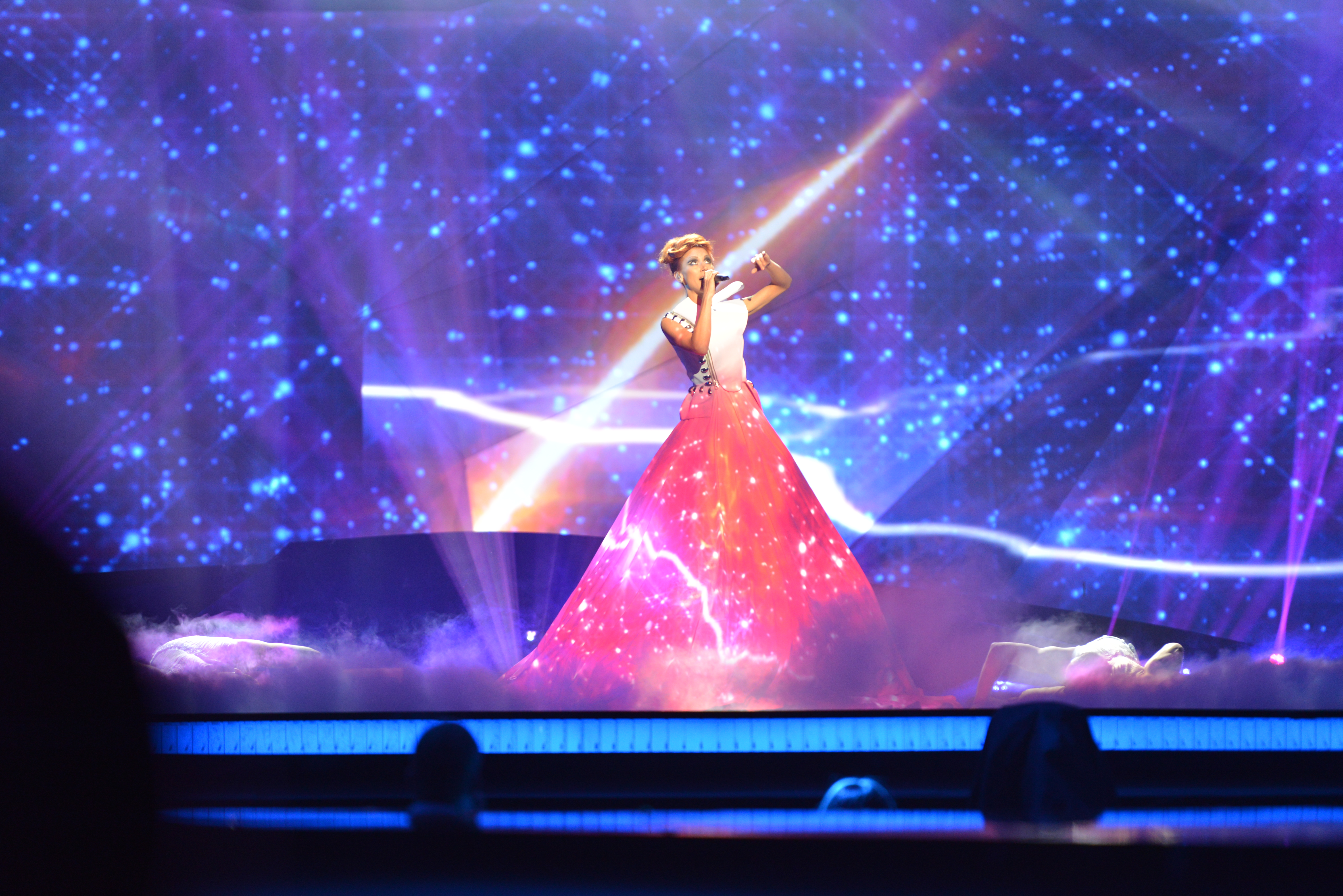 Aliona Moon representing Republic of Moldova with the song "O mie" during the first dress rehearsal of the first semi final of the Eurovision Song Contest 2013 in Malmö. (Help translate this text)